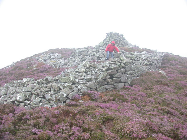 Ranachan Hill, stone fort The major visible remains of a stone-walled fort (internally 35m by 24m) of uncertain age. Details at